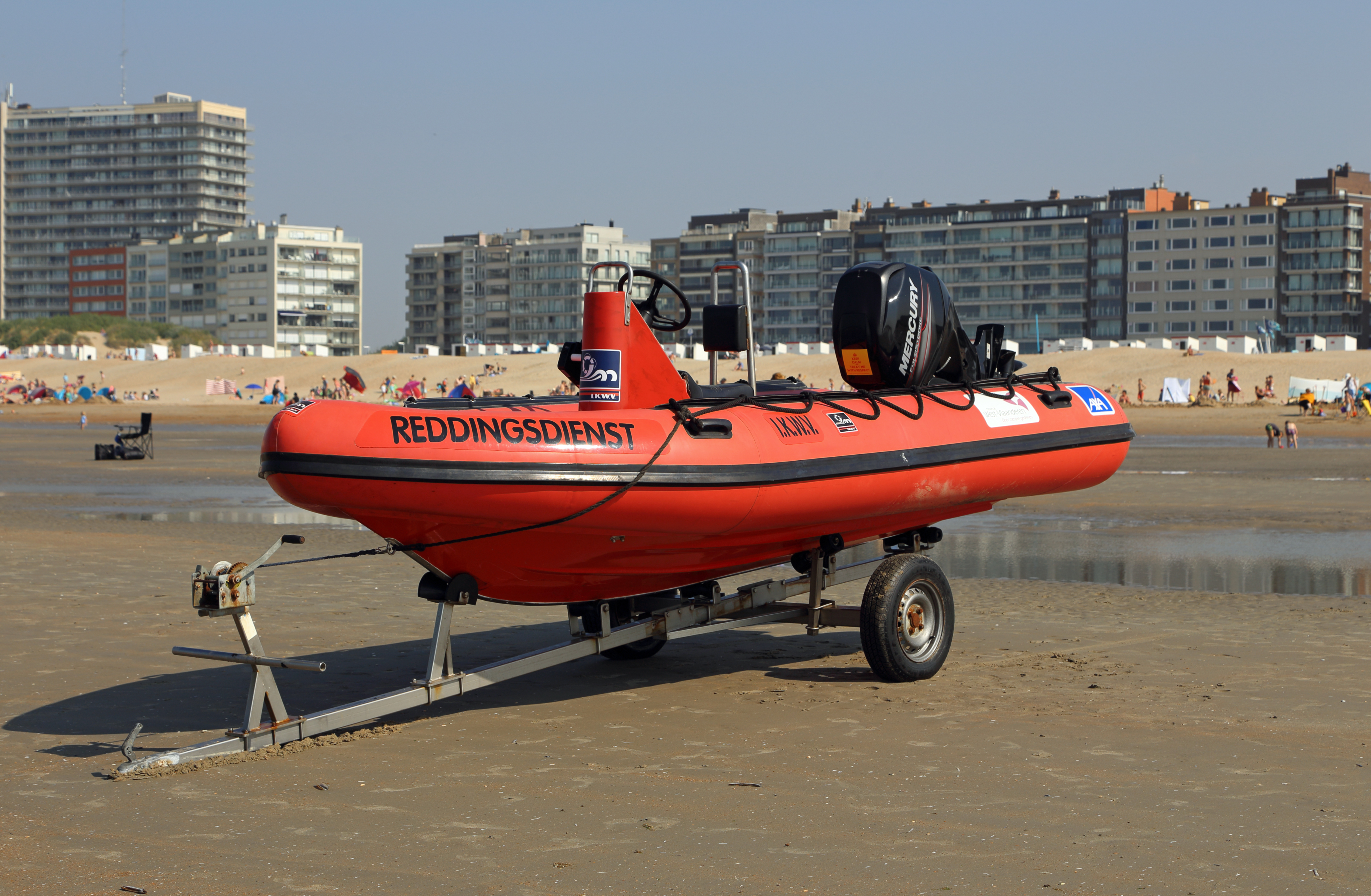 Oostduinkerke (municipality of Koksijde, Belgium), beach: rescue boat of the IKWV (Intercommunale Kustreddingsdienst van West-Vlaanderen - Lifeguards service of the province of West Flanders)